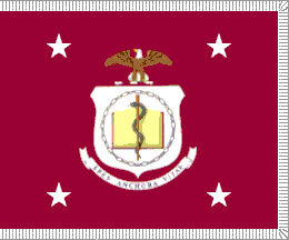 The official flag of the Secretary of Health, Education, and Welfare, in use from 1953 to 1980. An actual photograph of the departmental flag can be found here. Executive Order 10510 approved the seal featured on the flag.